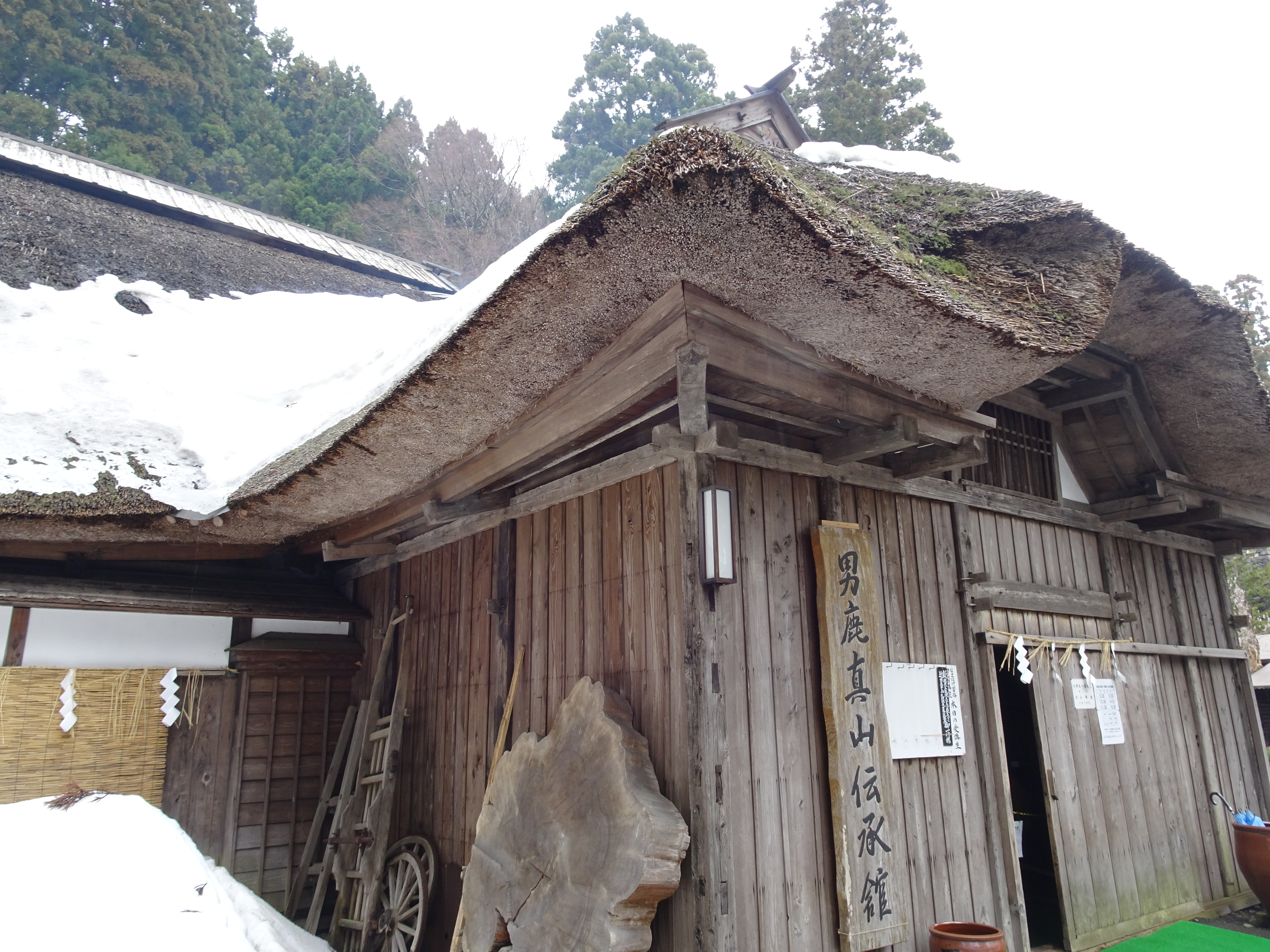 Oga Shinzan Denshoukan, Thatched roof house in Oga city Akita prefecture